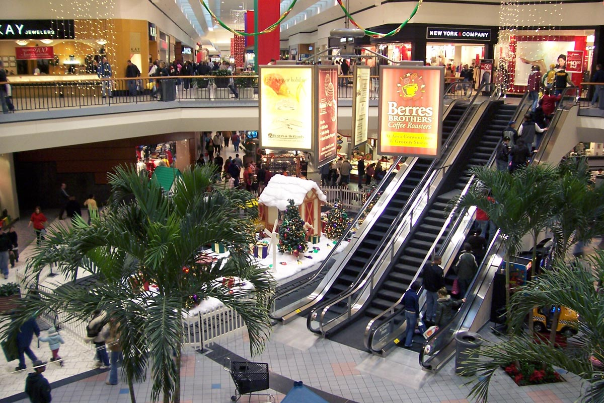 One of the atriums at Southridge Mall, a regional shopping center located in the Milwaukee County suburb of Greendale, Wisconsin.